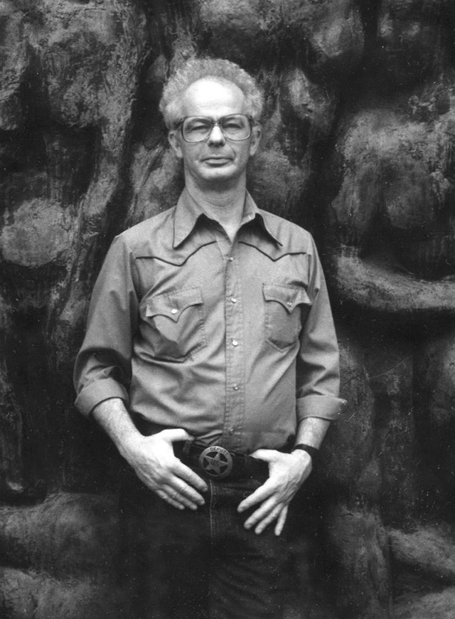 Doren in sculpture garden at University of North Carolina at Greensboro